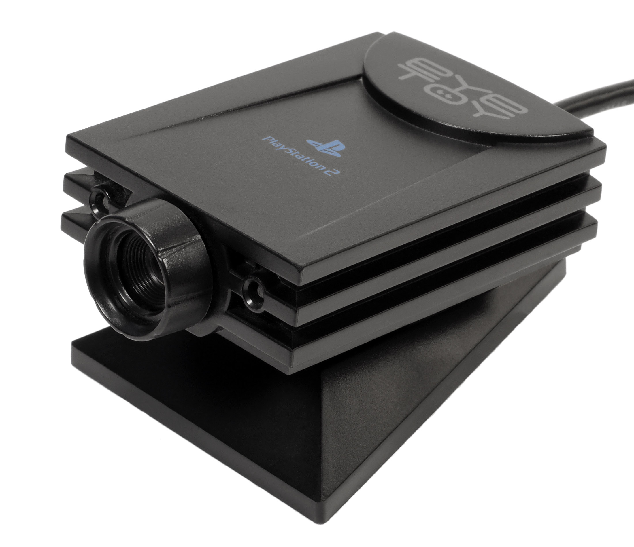 The PS2 Eye Toy, a webcam accessory for the PlayStation 2. This is the first model before the revision, which made it smaller and silver.